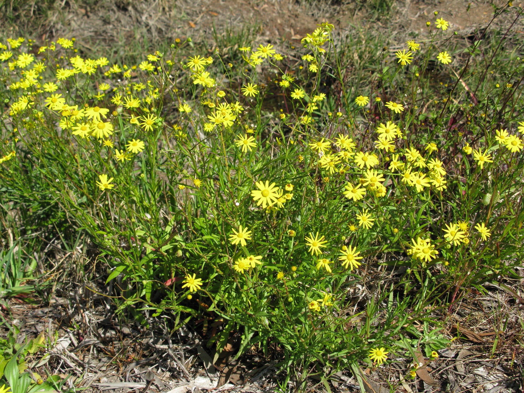 Introduced, yearlong-green, annual or biennial, erect herb to 70 cm tall. Leaves are variable, mostly 2-8 cm long and lanceolate or elliptical, but never deeply dissected. Fllowerheads are loose clusters of yellow heads, each to 2 cm diameter. There are usually 13 (12-15) outer (petal-like) ray flowers and one row of 20-21 bracts. Flowering is year-round, but mostly from autumn to spring. A native of southern Africa, it is a common weed of pastures and disturbed sites. Most prolific on lighter-textured, acid, well-drained, low to medium fertility soils. Seeds are spread long distances by wind. More abundant where pastures are overgrazed or disturbed. Contains toxins that cause irreversible liver damage. Poisoning is usually chronic, leading to ill-thrift and eventually death if stock continue to graze it. Horses and cattle (especially young stock) are most susceptible, sheep less so, and goats the least. Not very palatable for cattle or horses, but goats and sheep will seek it out. More likely to be eaten if stock graze after slashing, as they cannot discriminate between fireweed and pasture. Best controlled using a number of methods, including strong pastures, grazing and herbicides. A dense, well-managed pasture can limit fireweed establishment, plant size and seed production. Hand pulling and bagging is very effective for controlling small/light infestations. Herbicides are most effective if used on smaller plants, preferably before flowering.